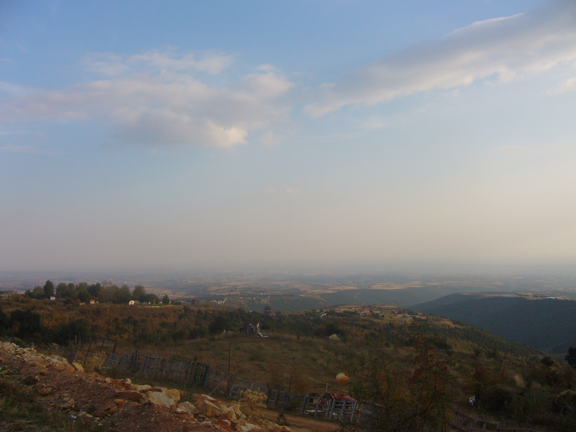 Paiko/Paiak mountain, Aegean Macedonia